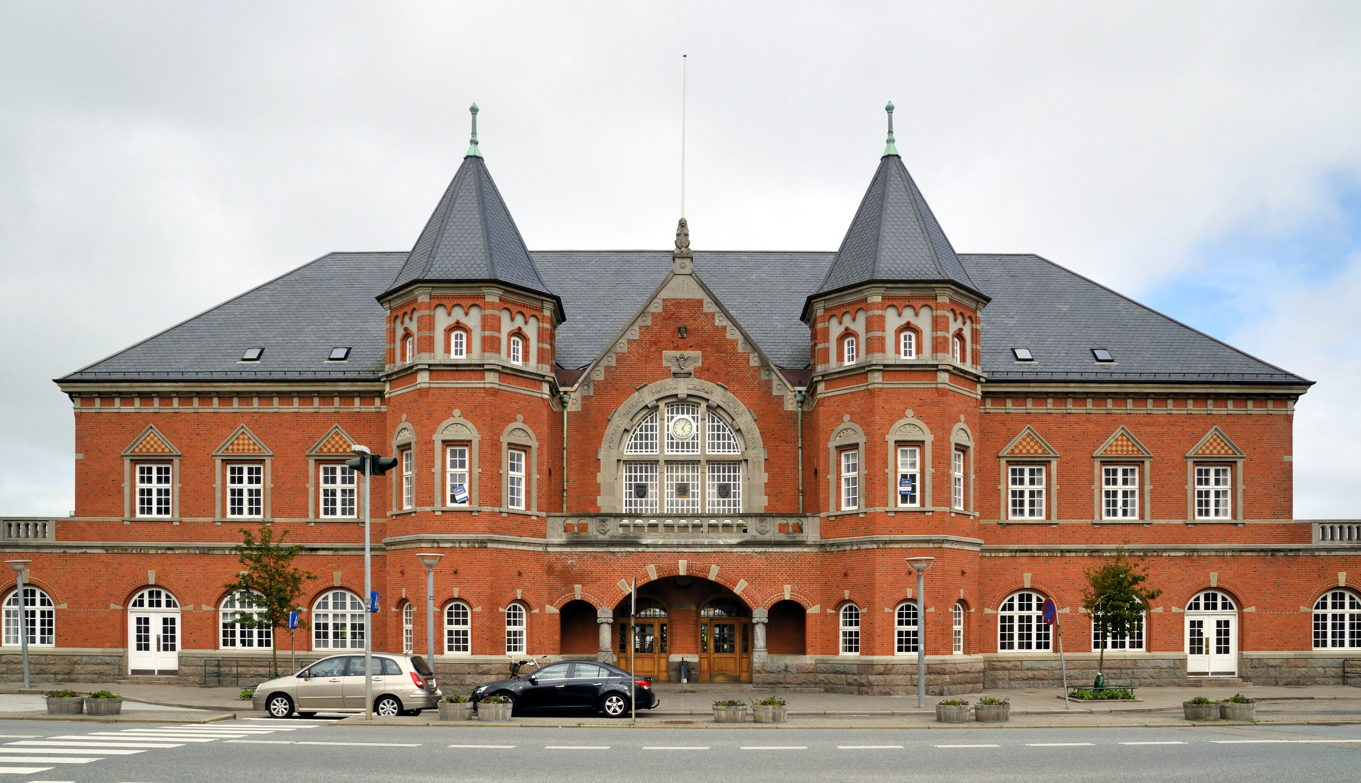 Esbjerg: central station